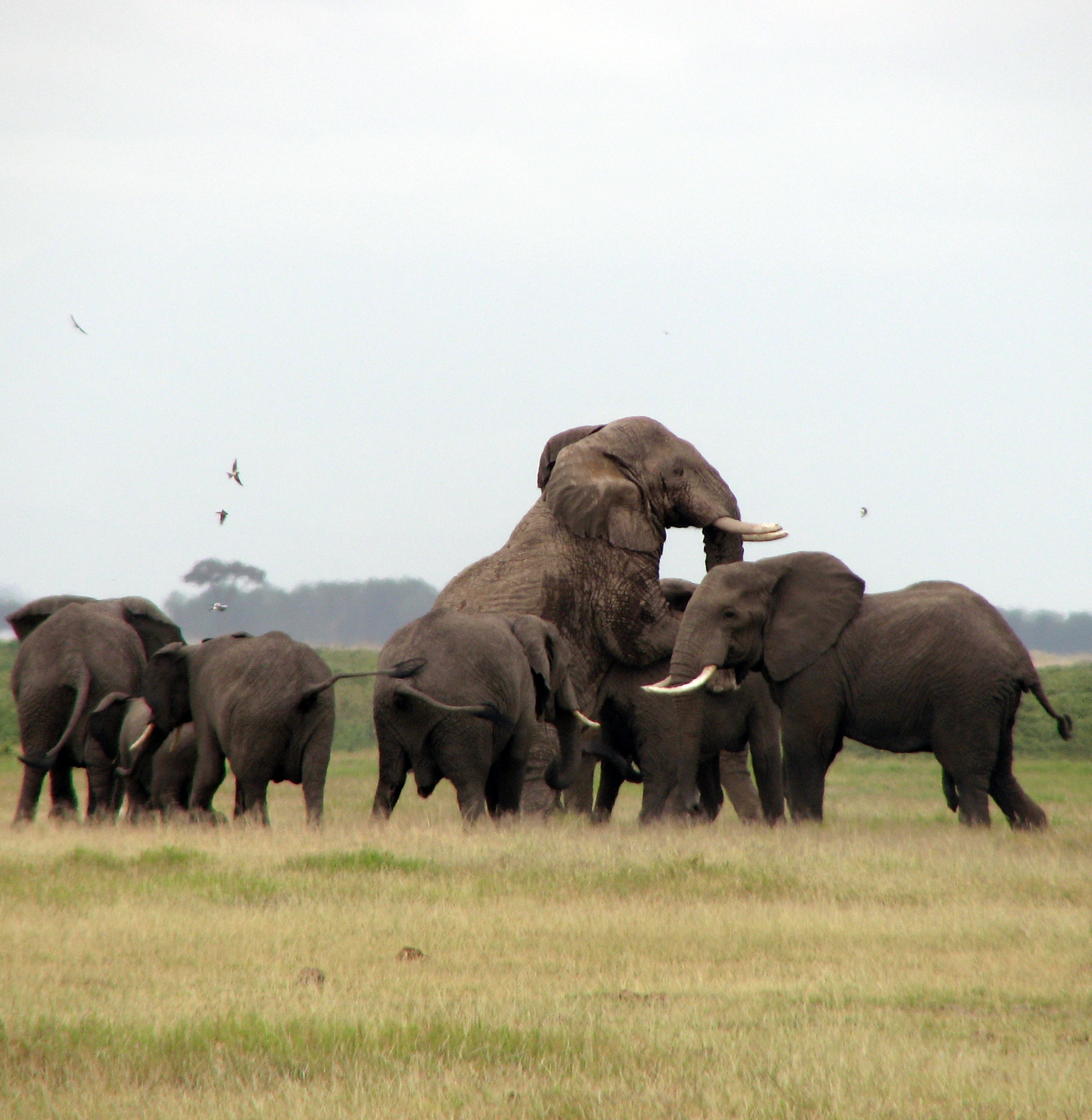 Taken on an African Safari